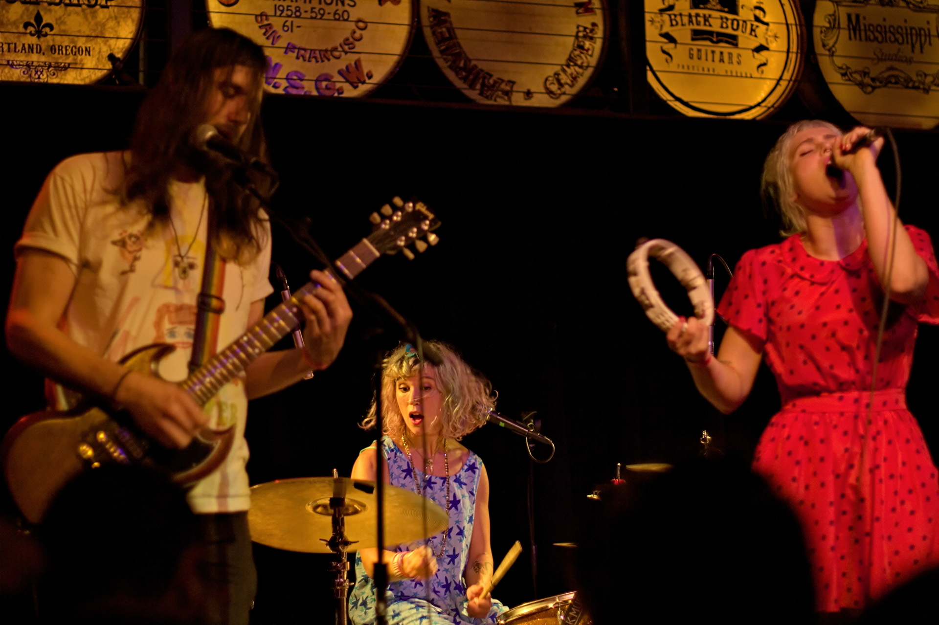 Tacocat live 2015-07-17 at Mississippi Studios, Portland, Oregon